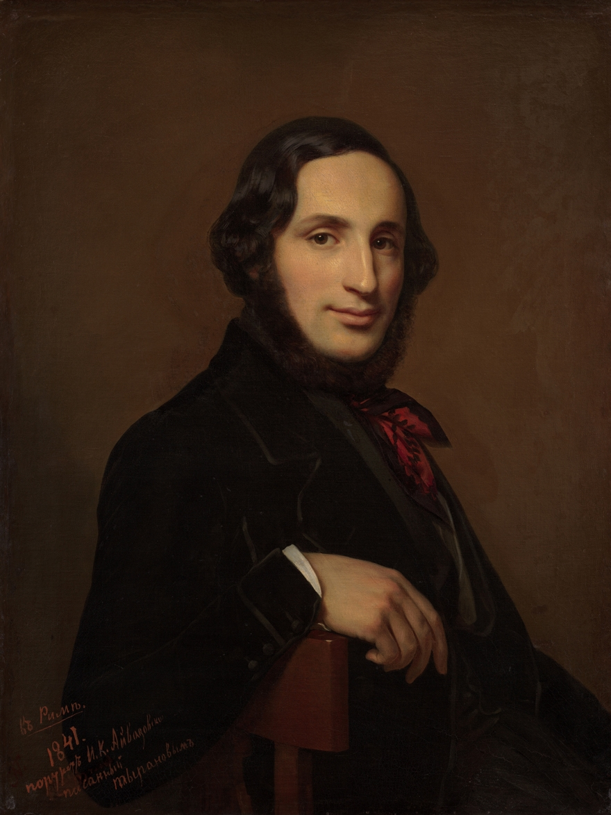 The portrait of Ivan Aivazovsky